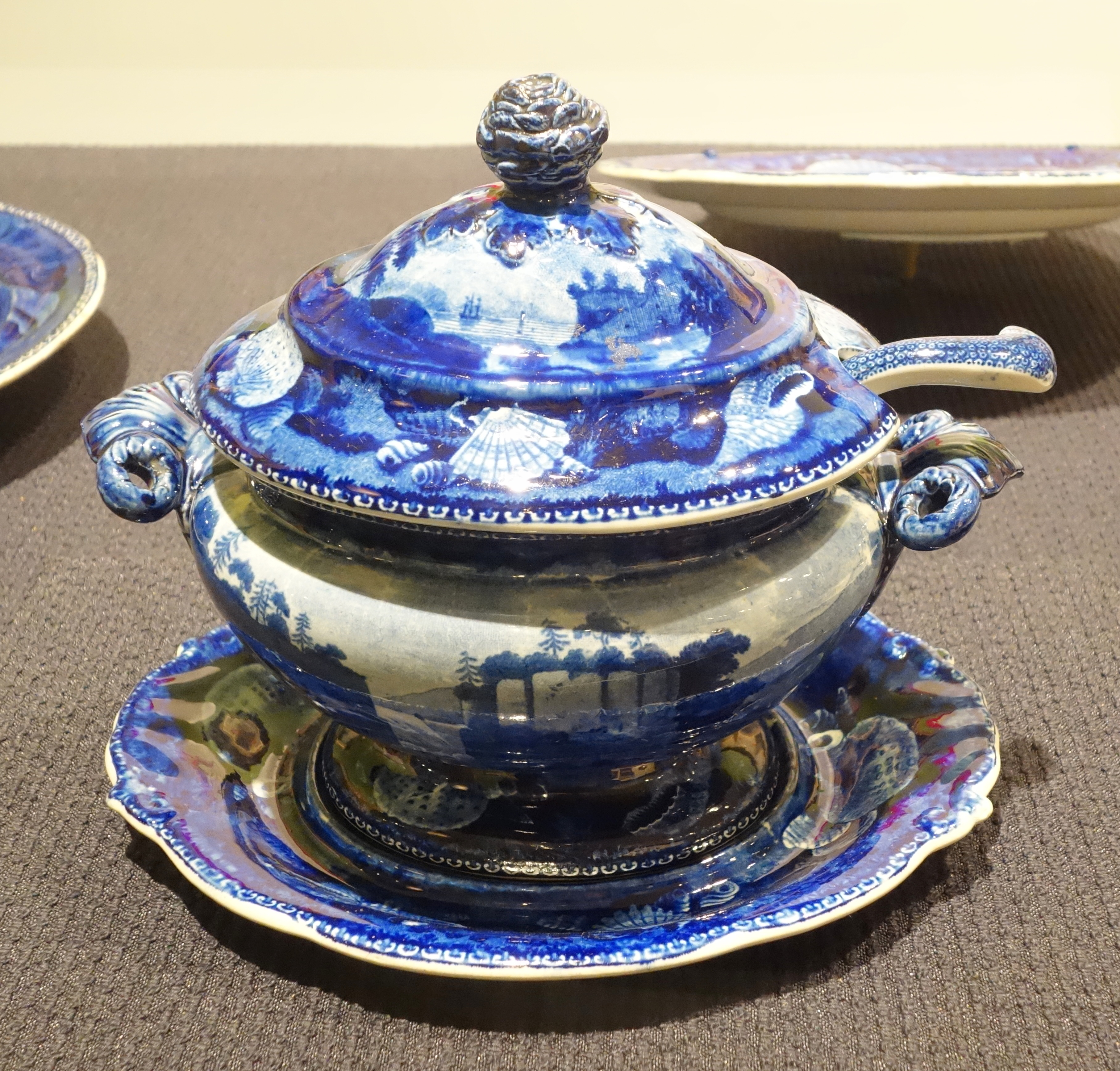 Exhibit in the Brooklyn Museum - Brooklyn, New York, USA. This artwork is in the public domain because the artist died more than 70 years ago.